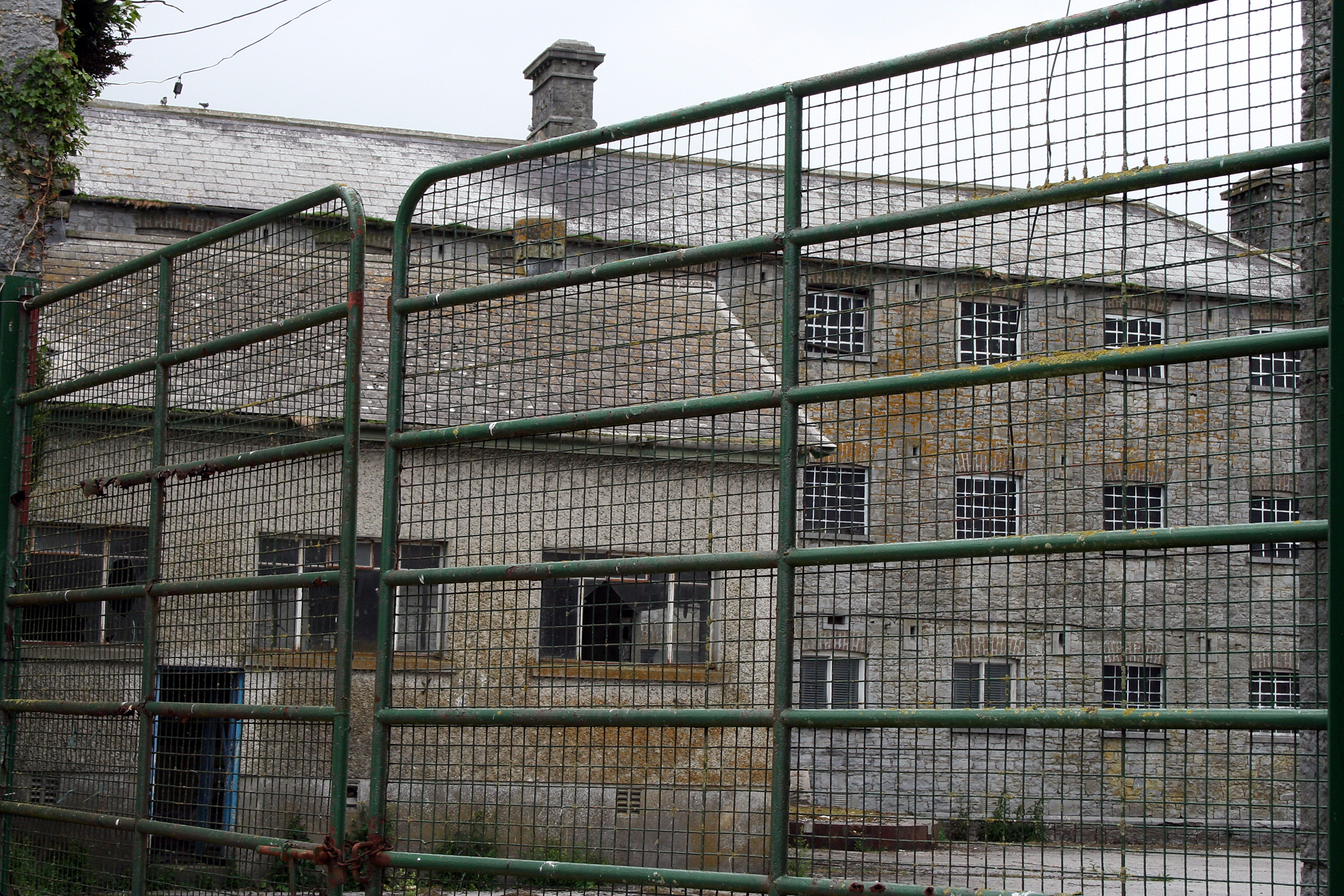 Donaghamore Workhouse, County Laois, near to Donaghmore and Bealady Cross Roads, Laois, Ireland. Her Majesty's facility for survivors of the Great Famine opened in 1853.